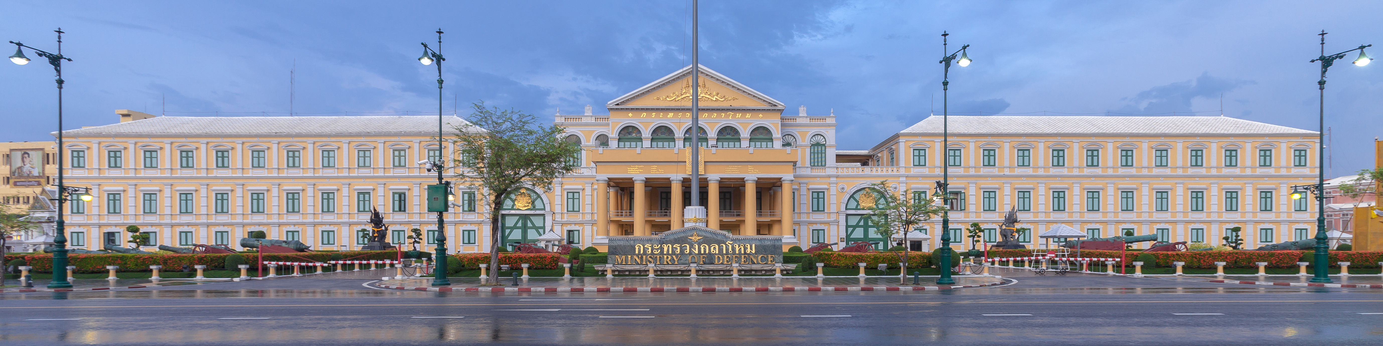 Ministry of Defense building of Thailand, Bangkok.